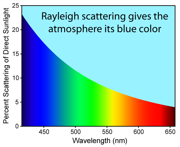 The blue color of the sky is caused by Rayleigh scattering of sunlight by the gases in the Earth's atmosphere. The above image shows the degree to which Rayleigh scattering scatters blue light more intensely than red light. The scattering curve shown is calculated for sunlight passing vertically through the atmosphere and is based on Other details, such as scattering from dust and absorption of some light by greenhouse gases are not shown. Copyright This image was created by Robert A. Rohde and is licensed under the GFDL.